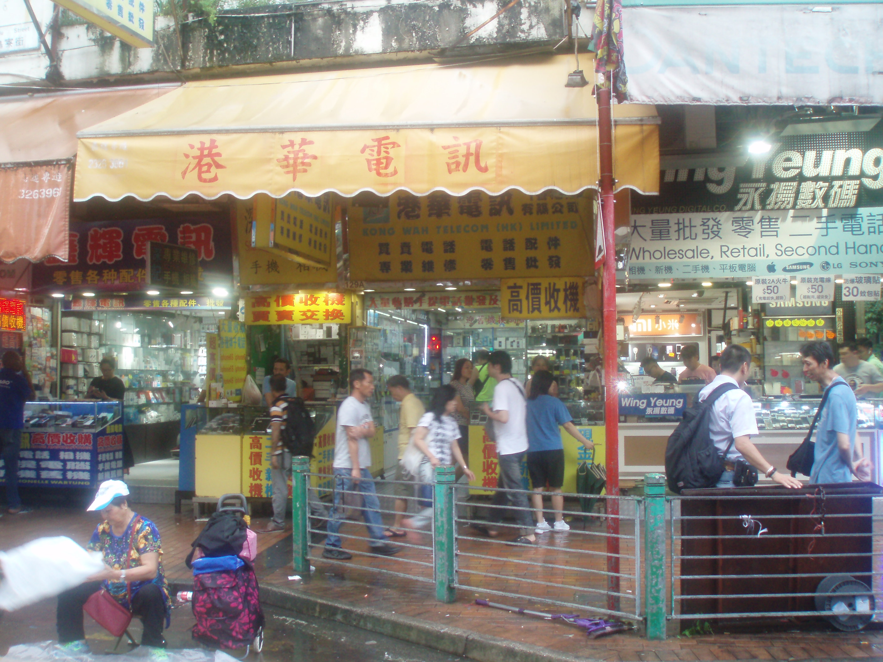 The section of Apliu Street near its junction with Kweilin Street.